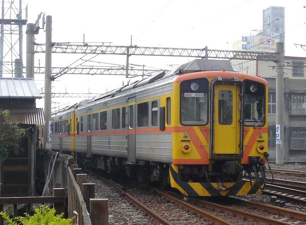 TRA DRC1025 at Taichung Station.